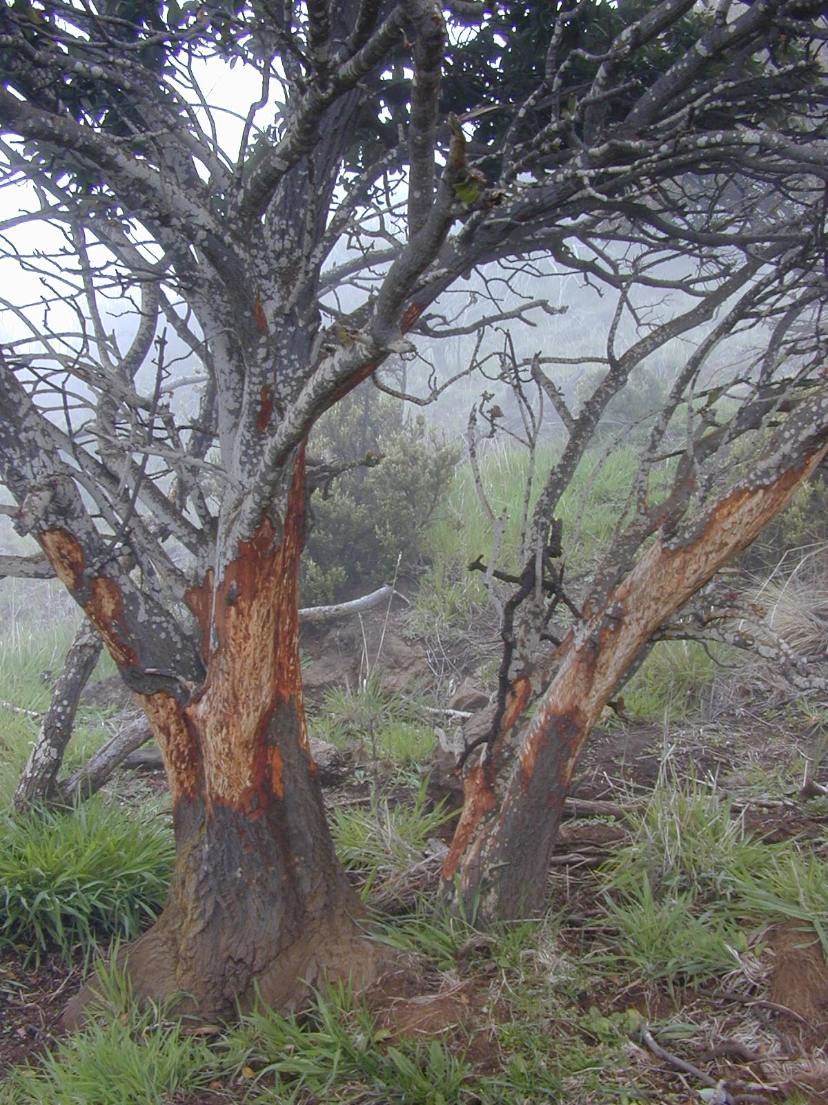 Santalum haleakalae (Deer rubbings). Location: Maui, Polipoli